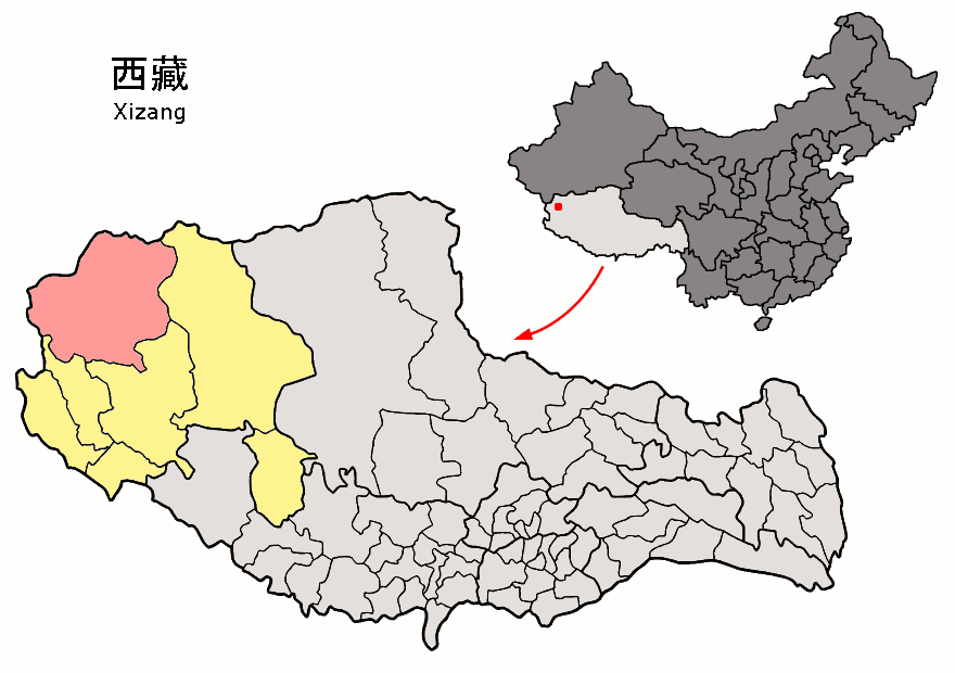 Location of Rutog County (pink) and Ngari Prefecture (yellow) within Tibet (Xizang) autonomous region of China